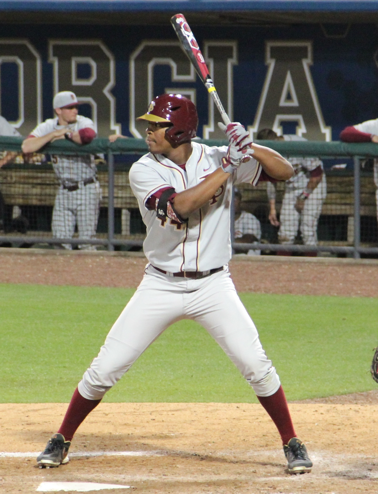 Jameis Winston at bat, 2014